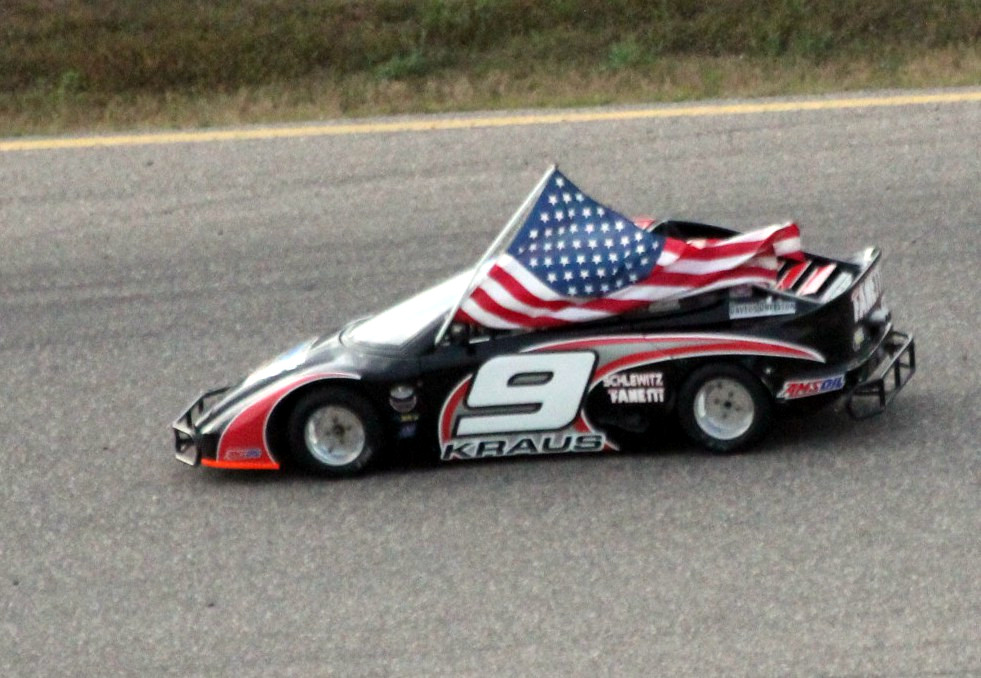 Derek Kraus' Bandolero at Golden Sand Speedway in Wisconsin.